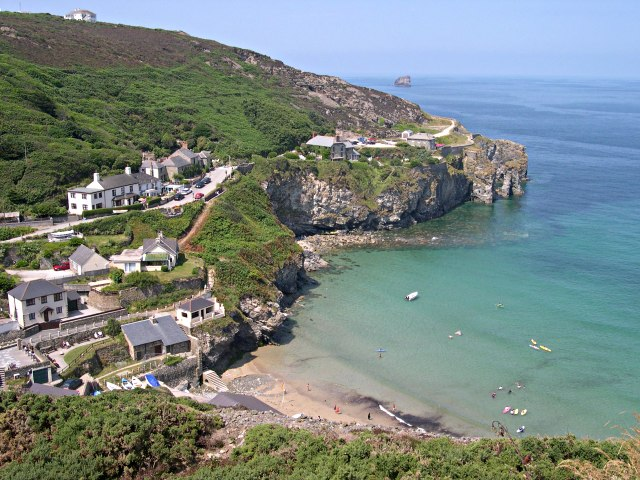 Trevaunance Cove, near to St Agnes, Cornwall, Great Britain. Looking down on the cove from the Blue Hills.